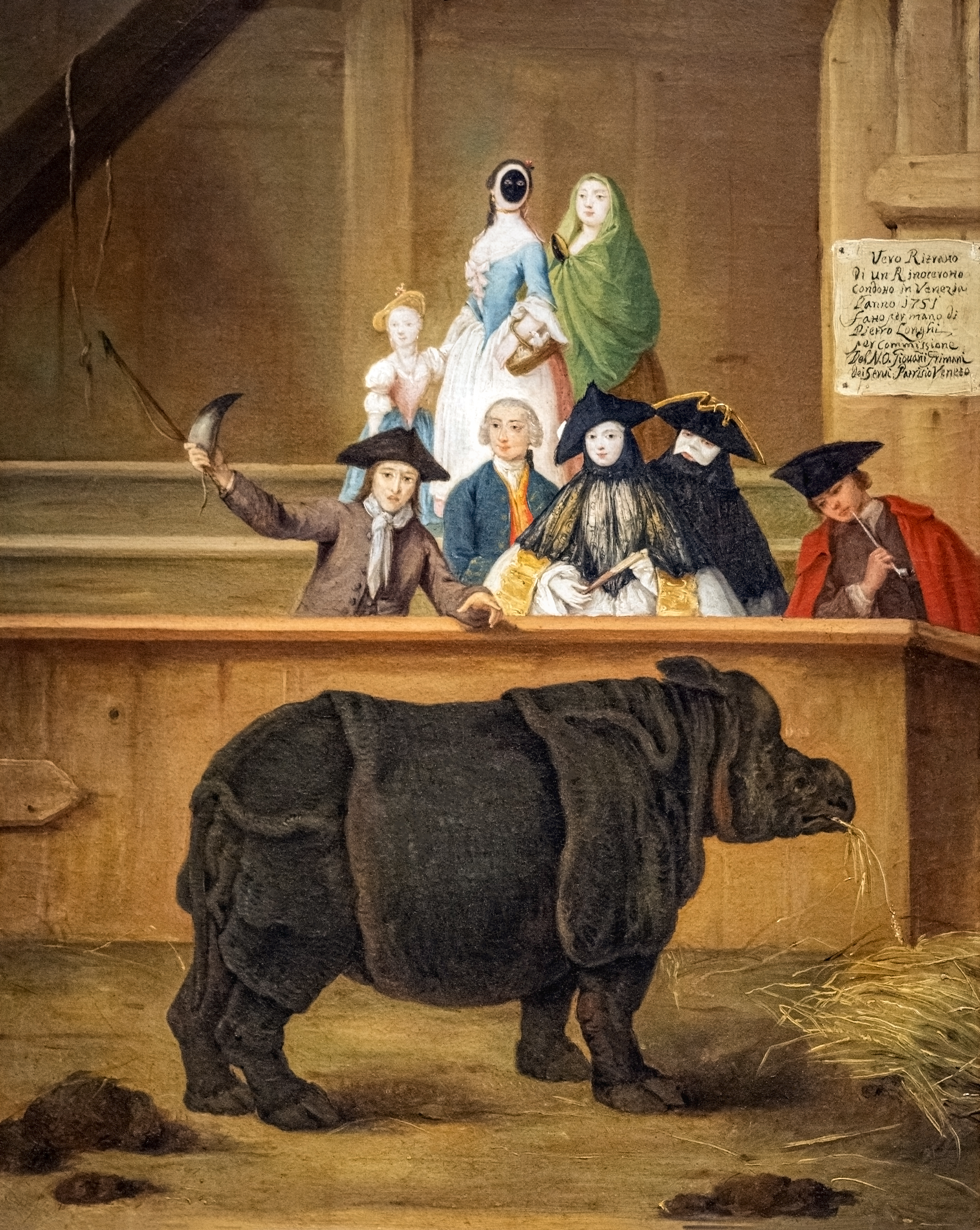 Indian rhinoceros ( Rhinoceros unicornis ), named Clara, born about 1738, was exhibited in European capitals between 1746 and 1758 including Venice in 1751. This is the Grimani family which is represented appearing the public. The tamer holds his horn, removed in Rome the year before.